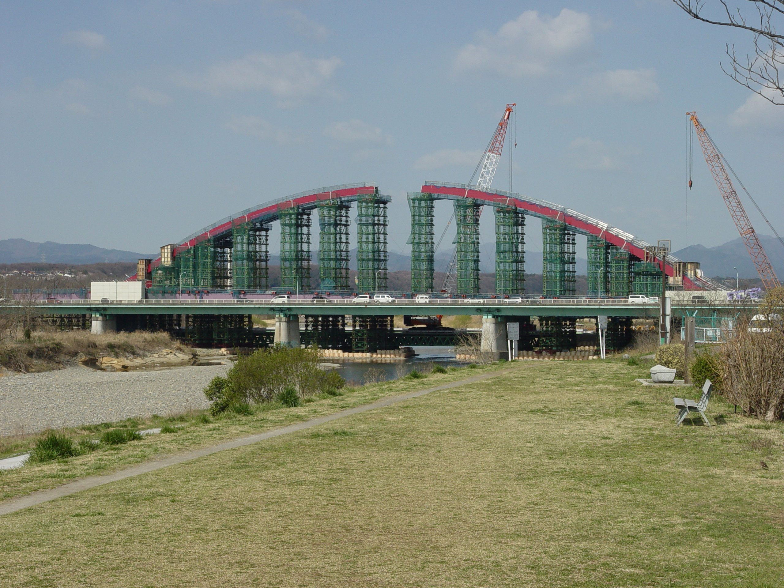 Tama Ōhashi Bridge, Tokyo prefectural road route 59 ja: 東京都道59号八王子武蔵村山線多摩大橋、多摩川。昭島市、八王子市